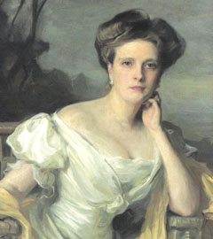 Detail from a portrait of Princess Andrew of Greece and Denmark painted in 1907 by Philip de László (d. 1937).